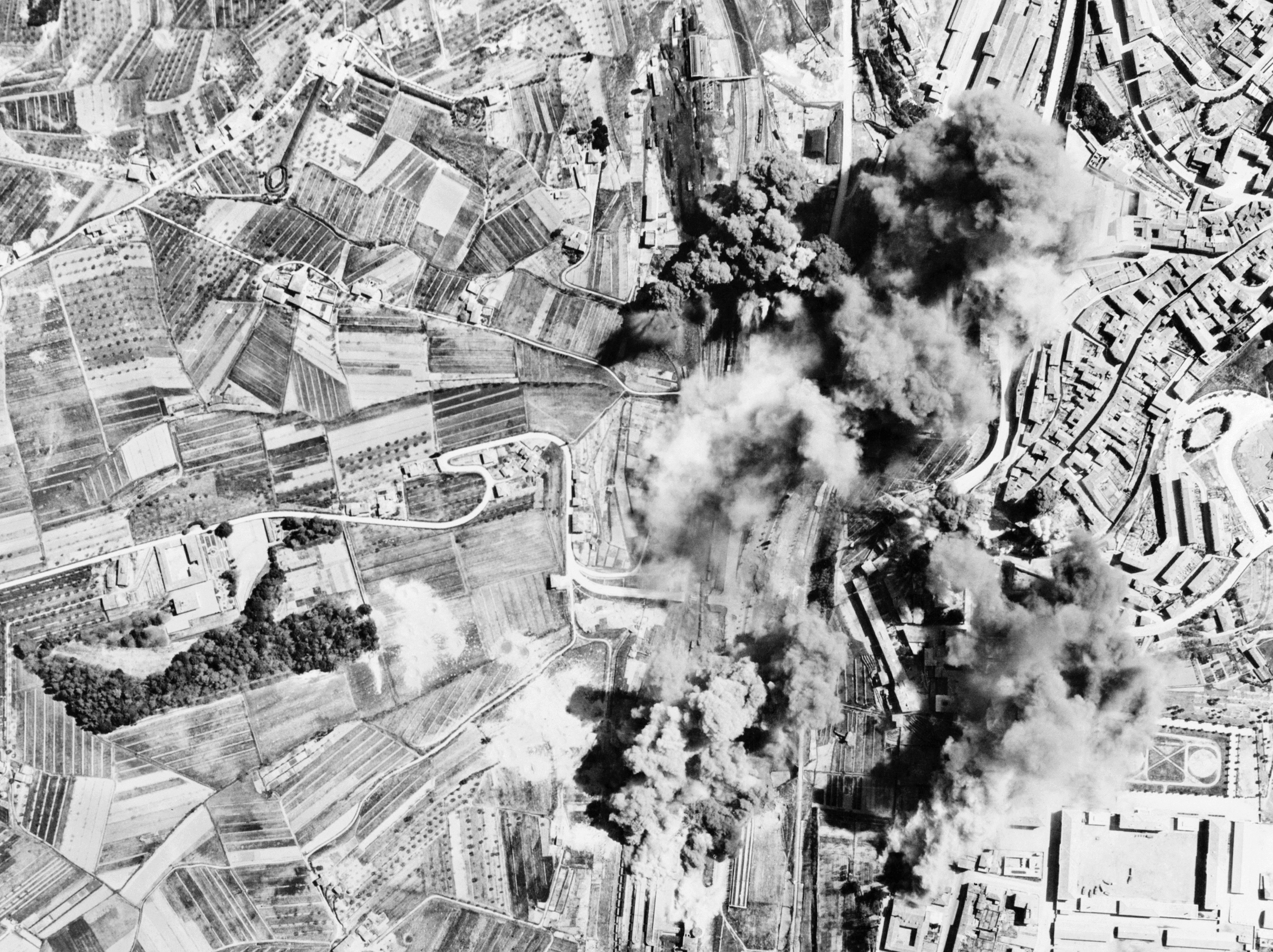 Nazi railroad yards at Siena are knocked out. On the alternate line from Pisa and Florence south to Rome, the Siena yards were blasted by Mediterranean Allied Air Force Bombers. Within two months "Operation Strangle" had smashed all large and medium sized railyards at Rome, Rimini, Ancona, Pisa, Arezzo, Foligno, Terni, and Viterbo